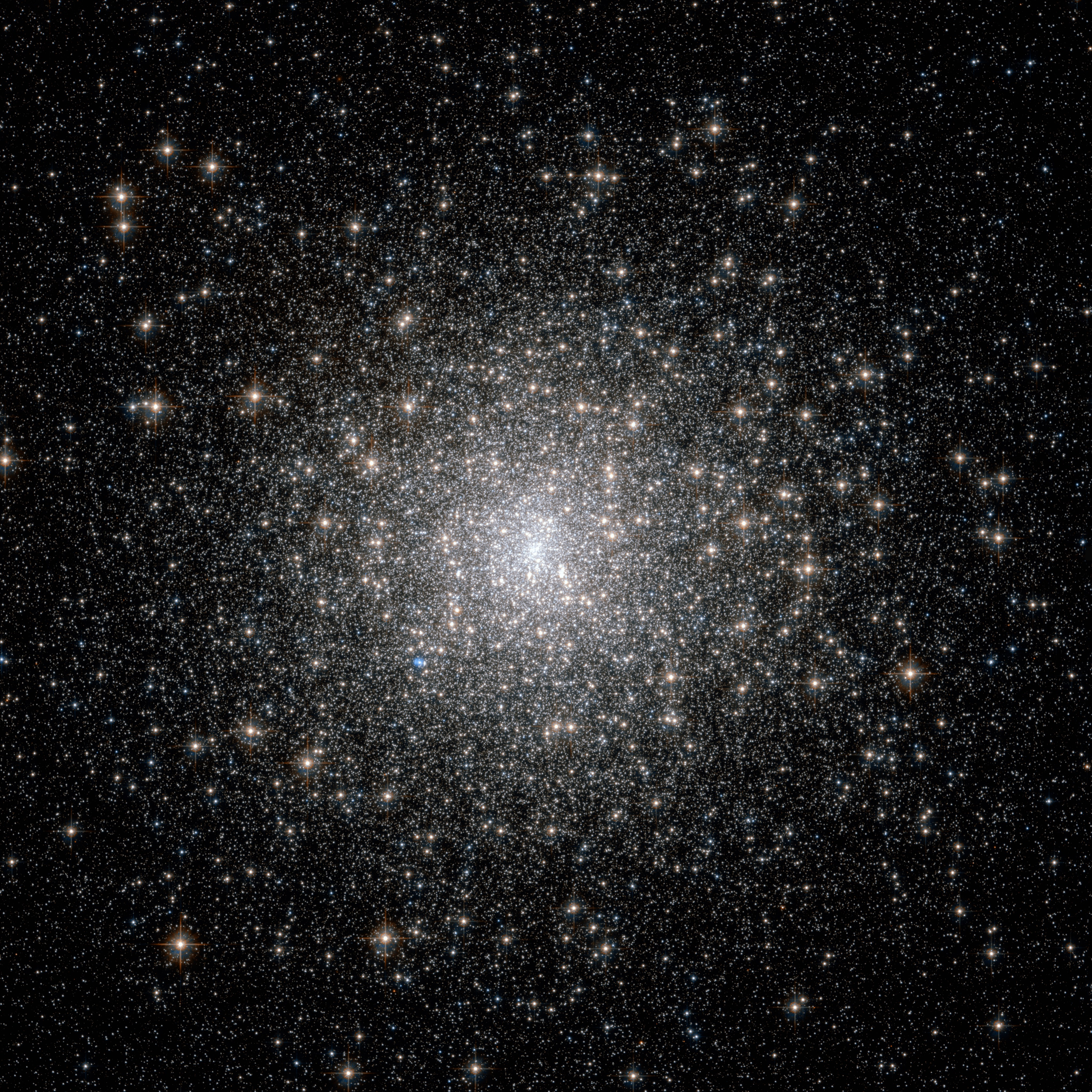 The dazzling stars in Messier 15 look fresh and new in this image from the NASA/Hubble Space Telescope, but they are actually all roughly 13 billion years old, making them some of the most ancient objects in the Universe. Unlike another recent Hubble Picture of the Week, which featured the unusually sparse cluster Palomar 1, Messier 15 is rich and bright despite its age. Messier 15 is a globular cluster — a spherical conglomeration of old stars that formed together from the same cloud of gas, found in the outer reaches of the Milky Way in a region known as the halo and orbiting the Galactic Centre. This globular lies about 35 000 light-years from the Earth, in the constellation of Pegasus (The Flying Horse). Messier 15 is one of the densest globulars known, with the vast majority of the cluster’s mass concentrated in the core. Astronomers think that particularly dense globulars, like this one, underwent a process called core collapse, in which gravitational interactions between stars led to many members of the cluster migrating towards the centre. Messier 15 is also the first globular cluster known to harbour a planetary nebula, and it is still one of only four globulars known to do so. The planetary nebula, called Pease 1, can be seen in this image as a small blue blob to the lower left of the globular’s core. This picture was put together from images taken with the Wide Field Channel of Hubble's Advanced Camera for Surveys. Images through yellow/orange (F606W, coloured blue) and near-infrared (F814W, coloured red) filters were combined. The total exposure times were 535 s and 615 s respectively and the field of view is 3.4 arcminutes across.